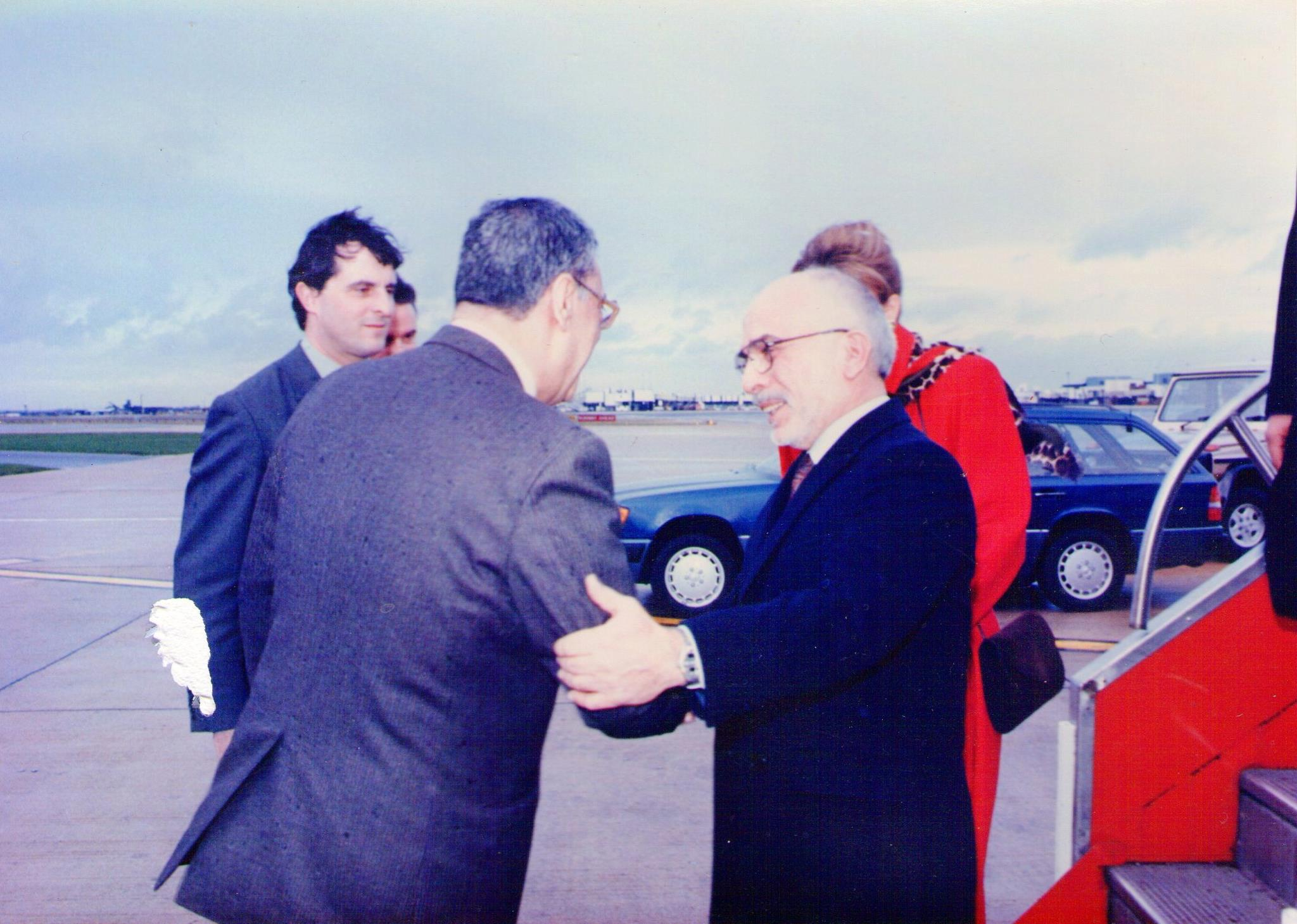 Dr. Albert Butros with the Late King Hussein II of Jordan